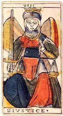 An original card from the tarot deck of Jean Dodal of Lyon, a classic Tarot of Marseilles deck which dates from 1701-1715.